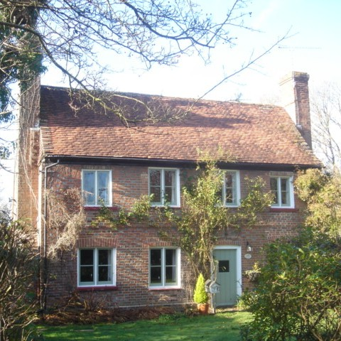 The Tweed, Tweed Lane, Ifield, Borough of Crawley, West Sussex, England: an 18th-century cottage which was originally Ifield's workhouse. Listed at Grade II by English Heritage (IoE code 363406)